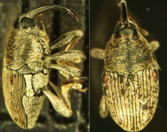 adult Linogeraeus urbanus from New Zealand